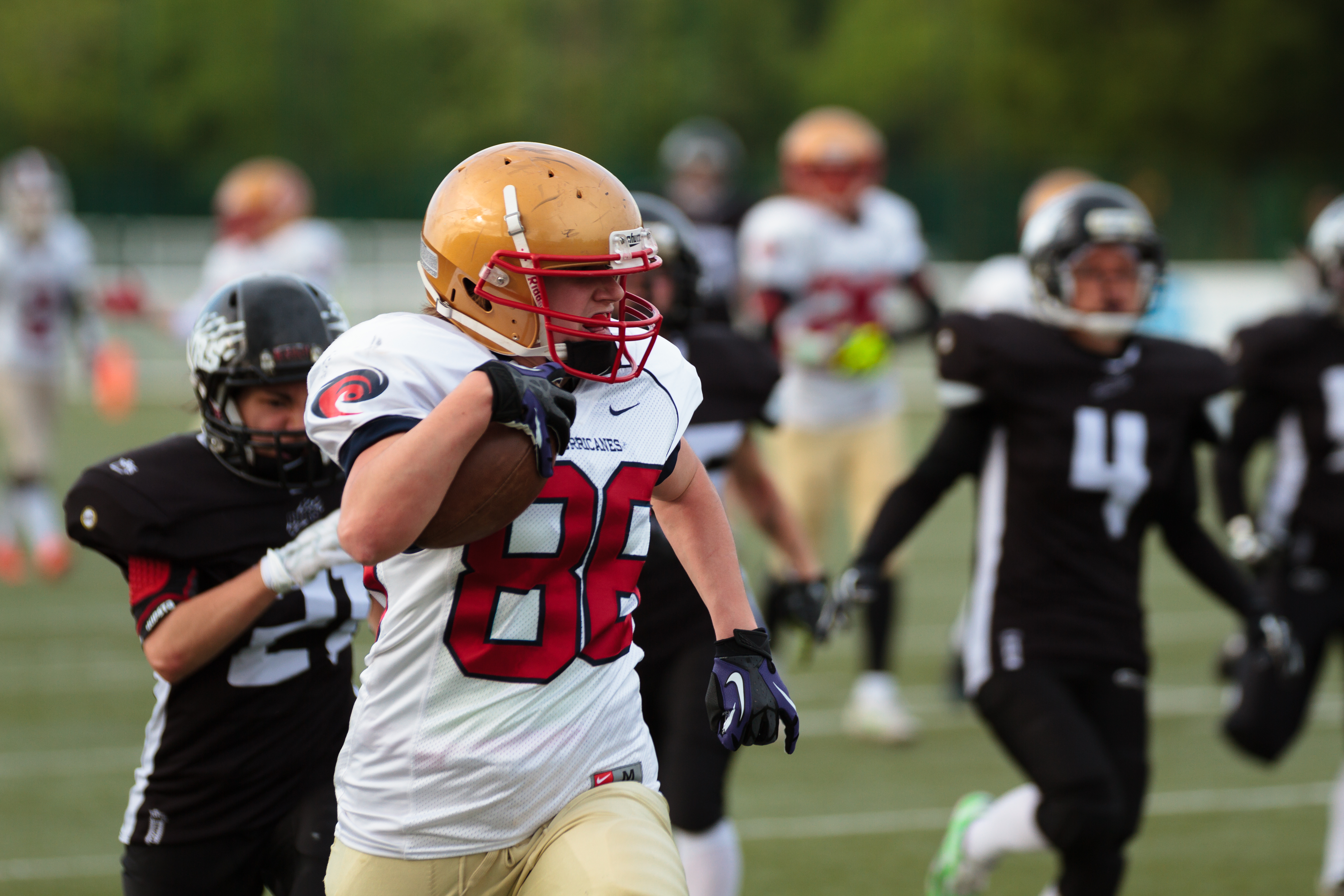 Women Foot US, French national championship, 2nd day of Group south